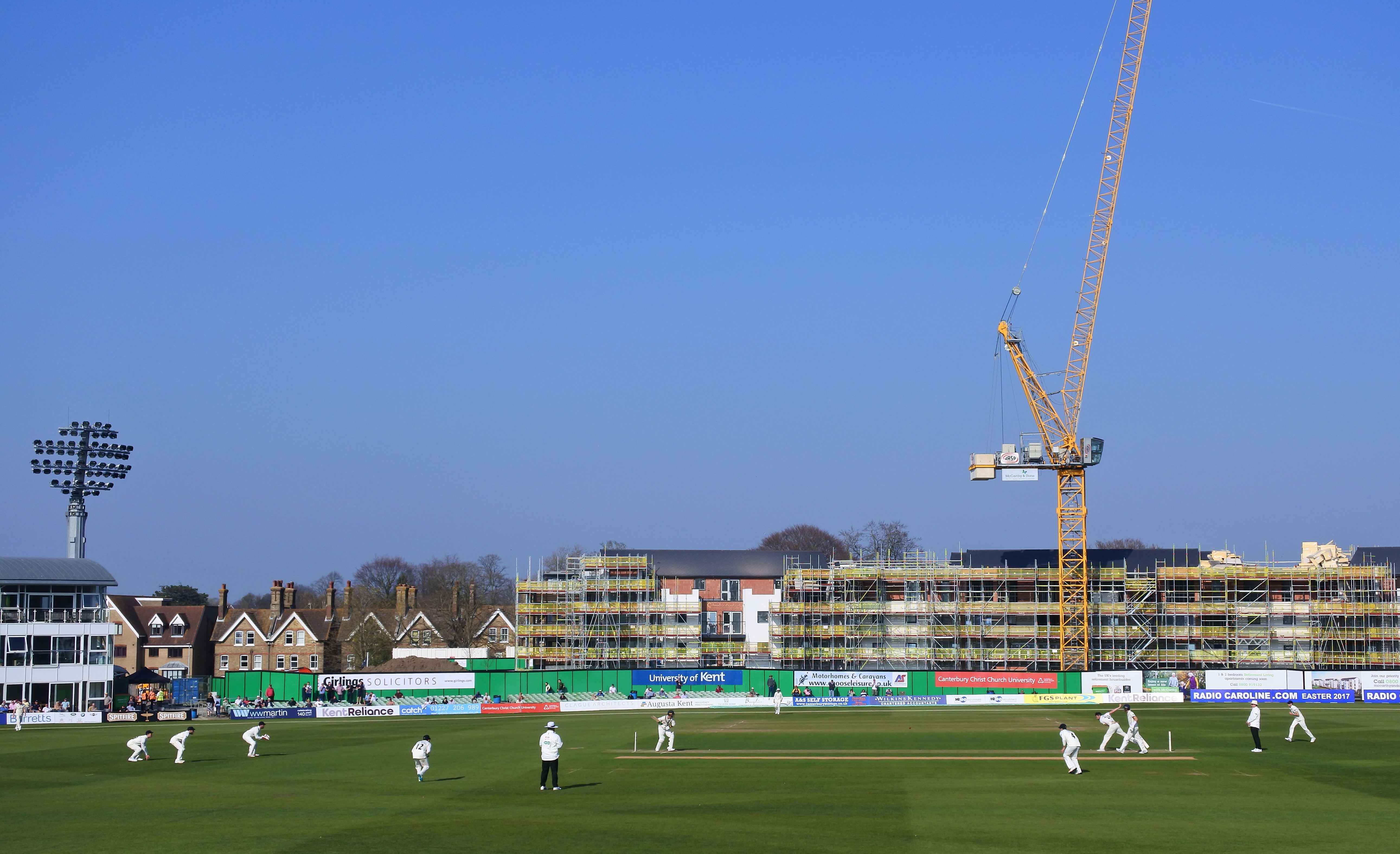 Retirement homes under construction at the St Lawrence Ground, Canterbury in April 2017, with Kent playing Gloucestershire in the foreground.